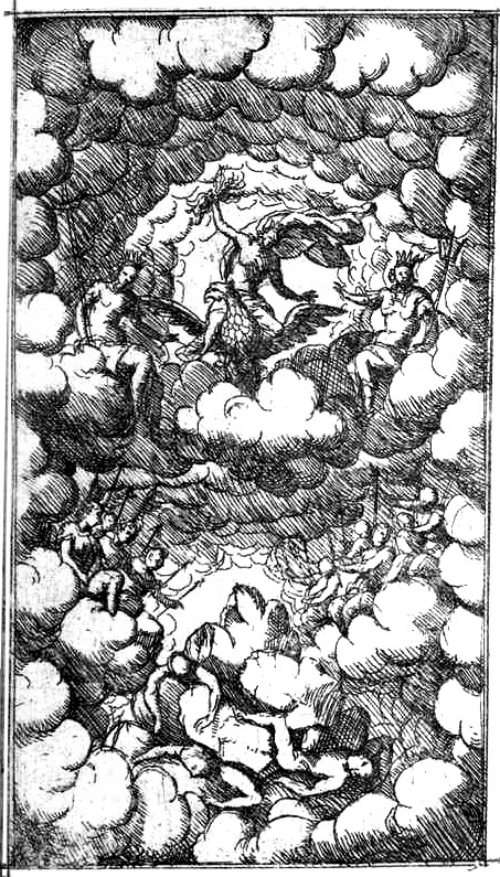 Cover illustration of the libretto for Giovanni Legrenzi's opera La divisione del mondo printed for its premiere at the Teatro San Salvatore Venice